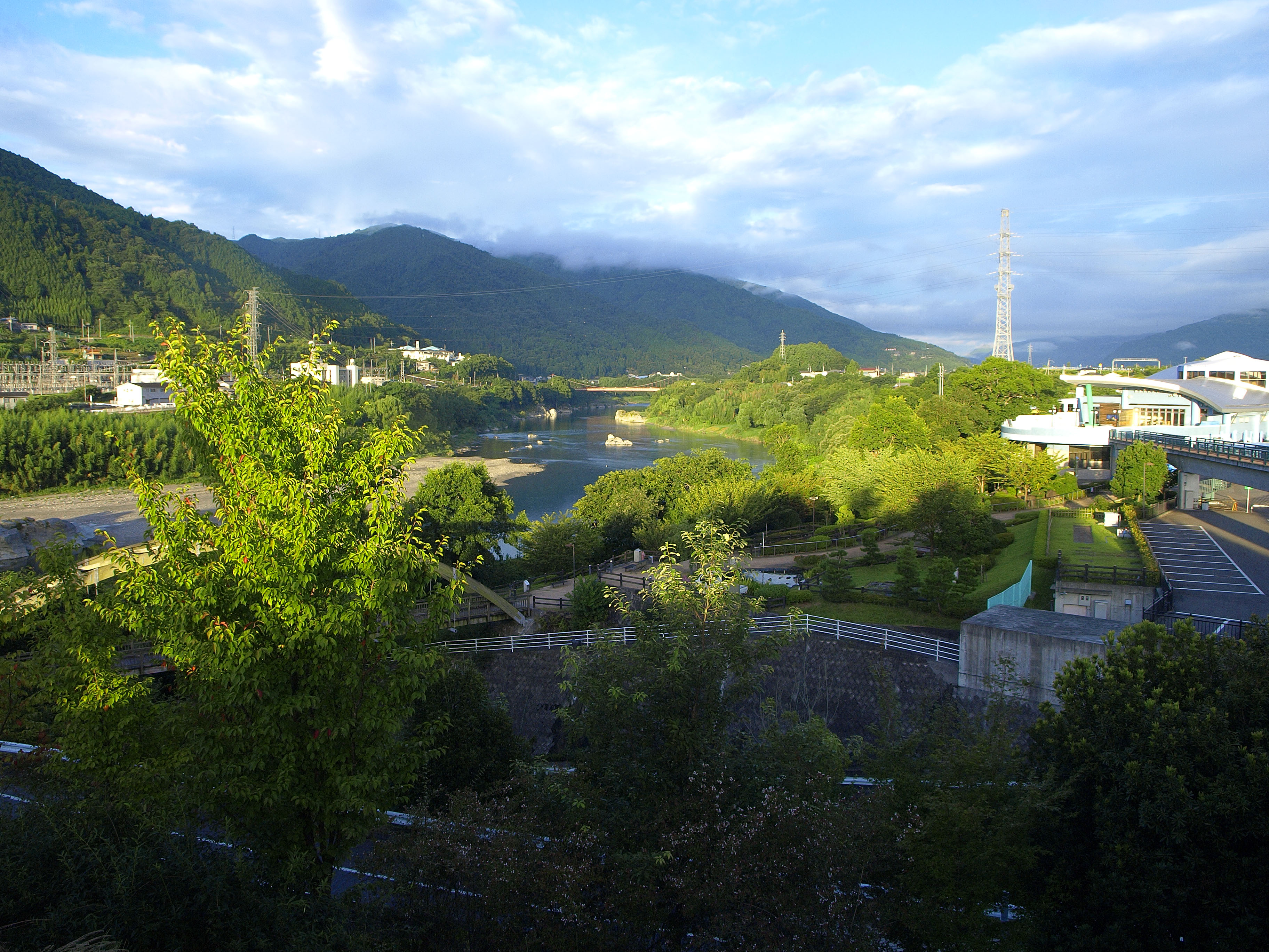 Yoshino river and Yoshinogawa Highway-Oasis - the highway rest area on the Tokushima Expressway - in the Tokushima prefecture, Japan.